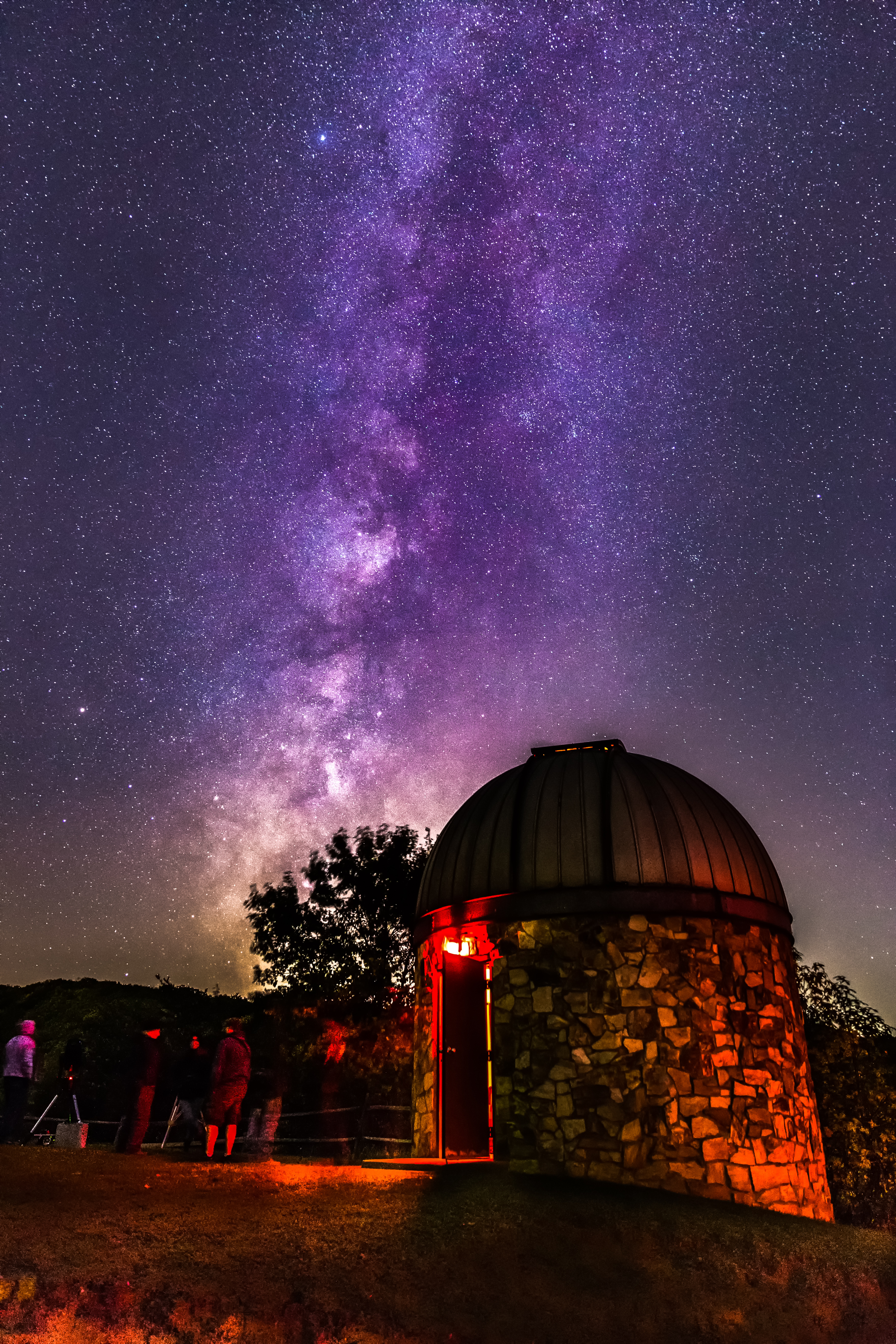 Milky way - Bays Mountain Park - Astronomy night viewing event